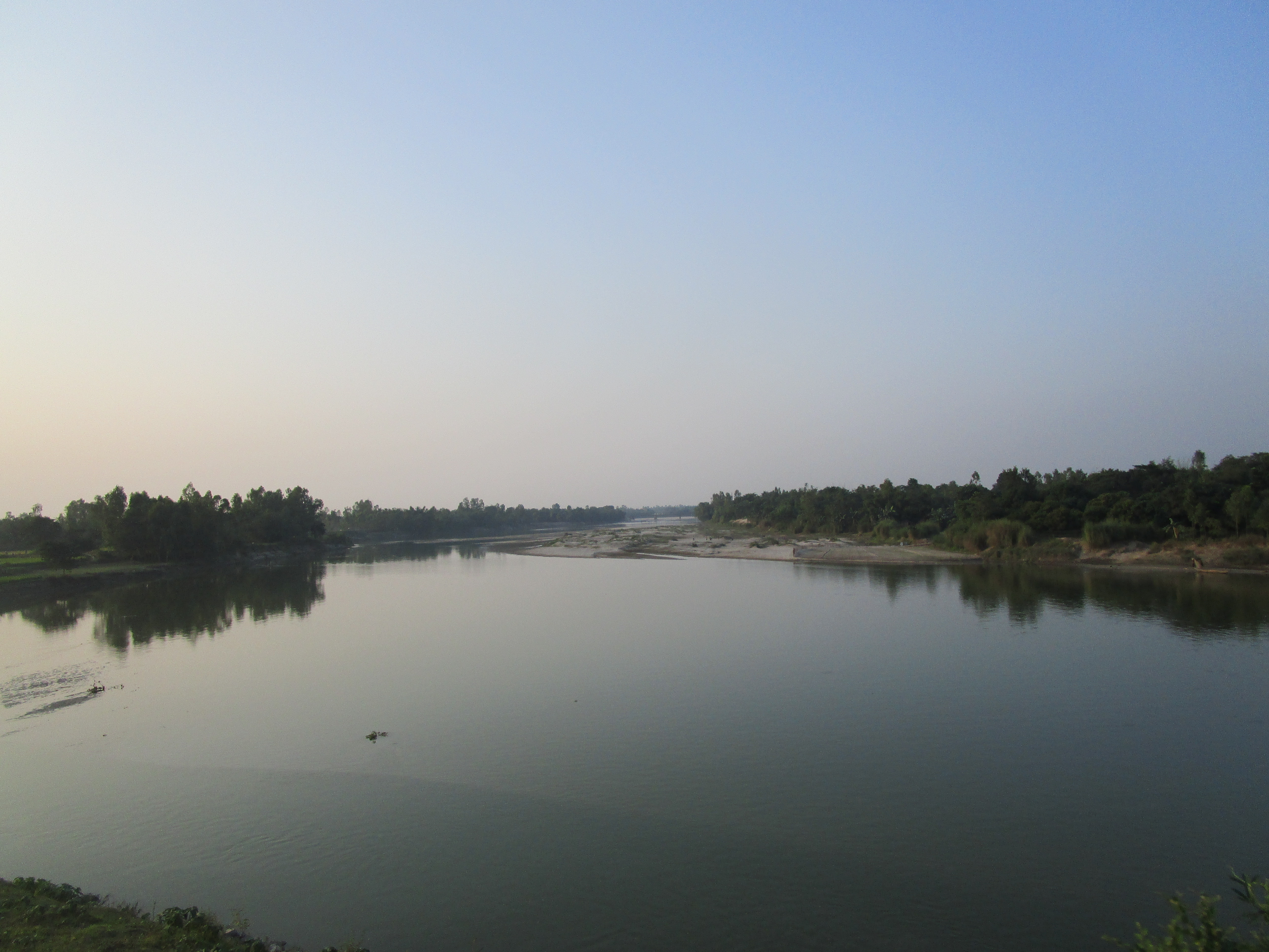 Kankra River from the rail bridge.